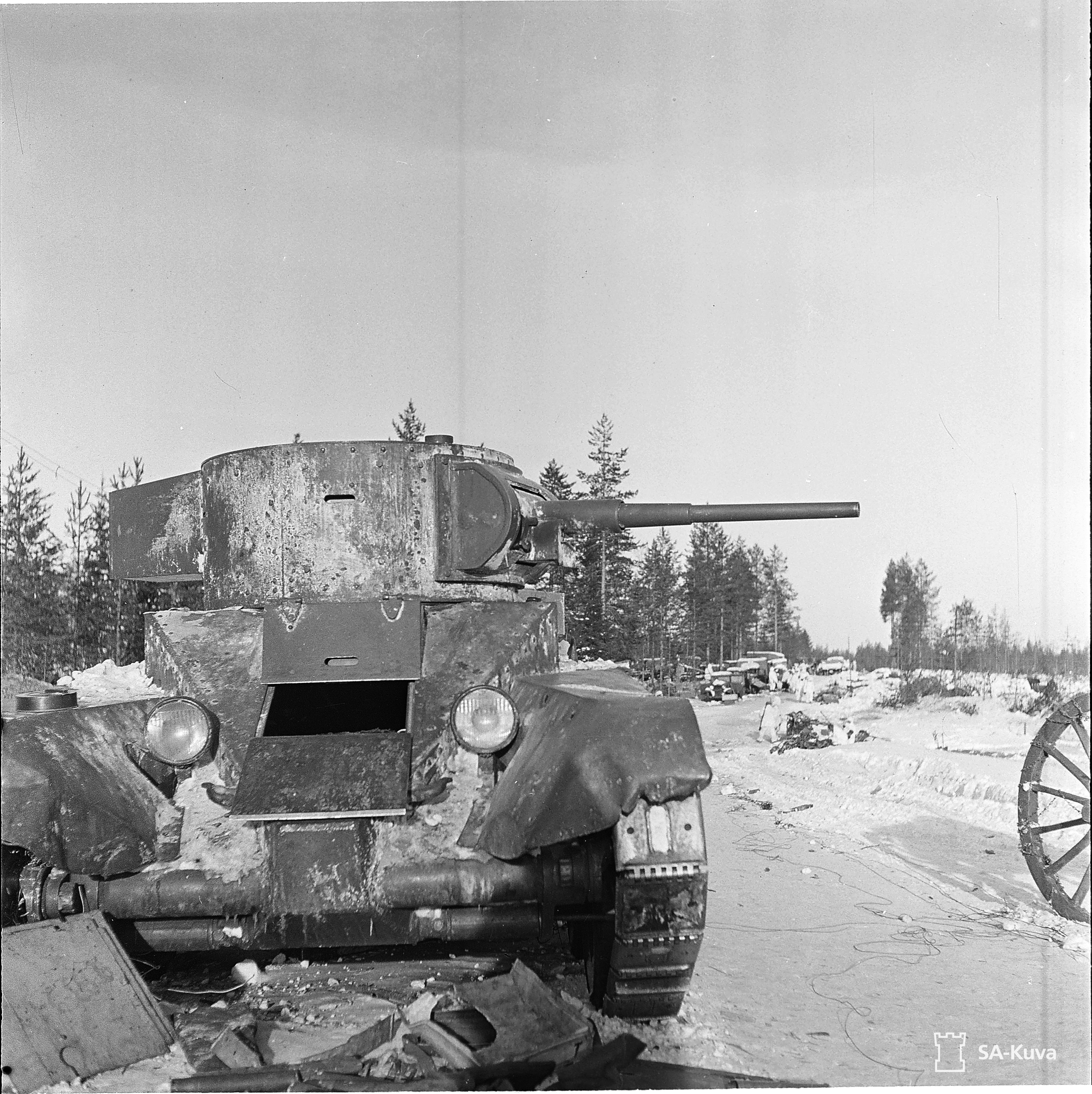 A wrecked BT-5, likely of the 34th Light Tank Brigade.